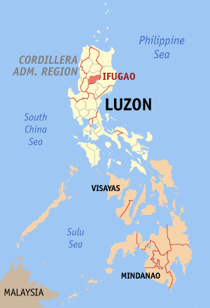 Map of the Philippines showing the location of Ifugao